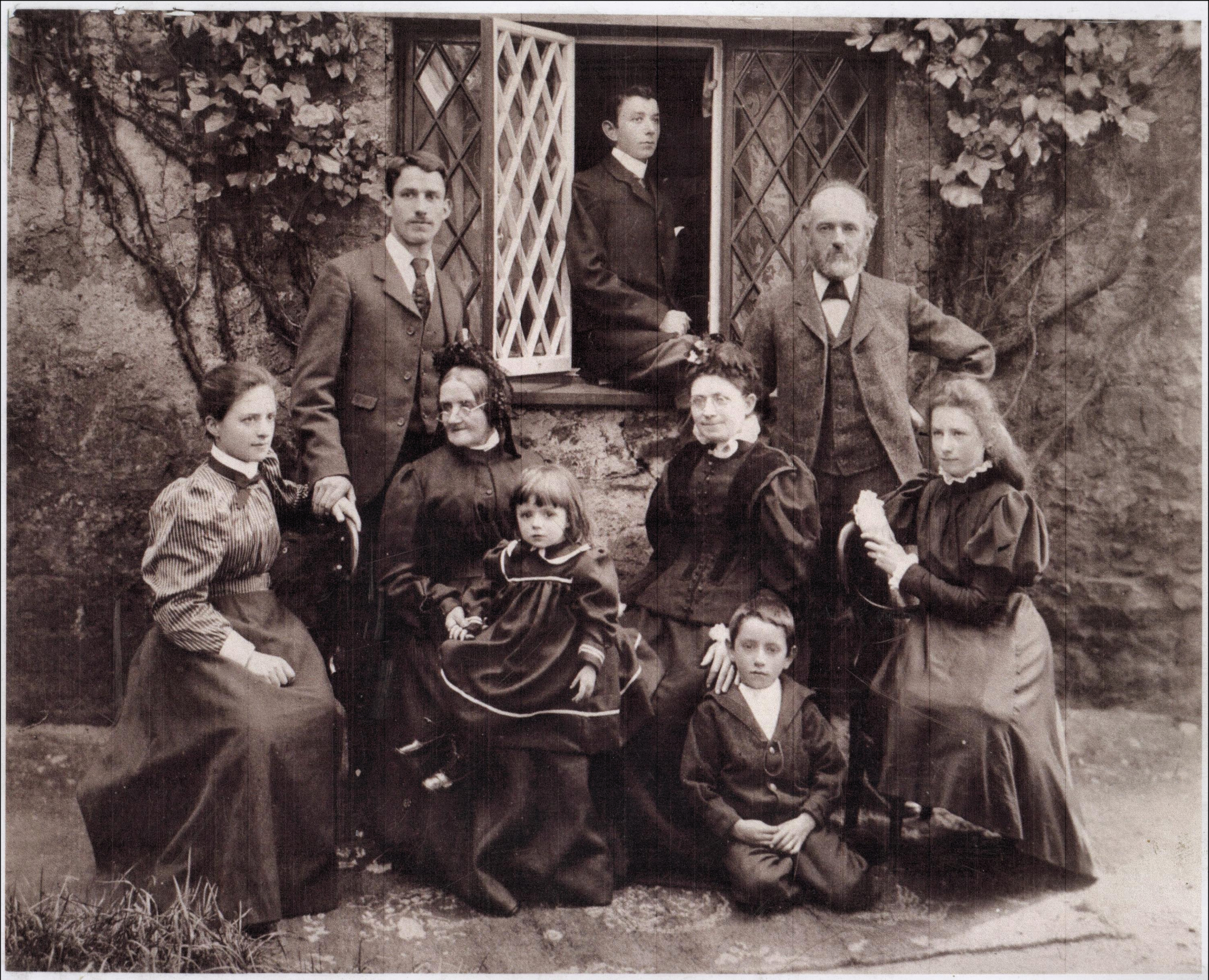 Angharad (nee Jones; 1876-1932), Waldo Williams' mother (left). See Welsh text for details.